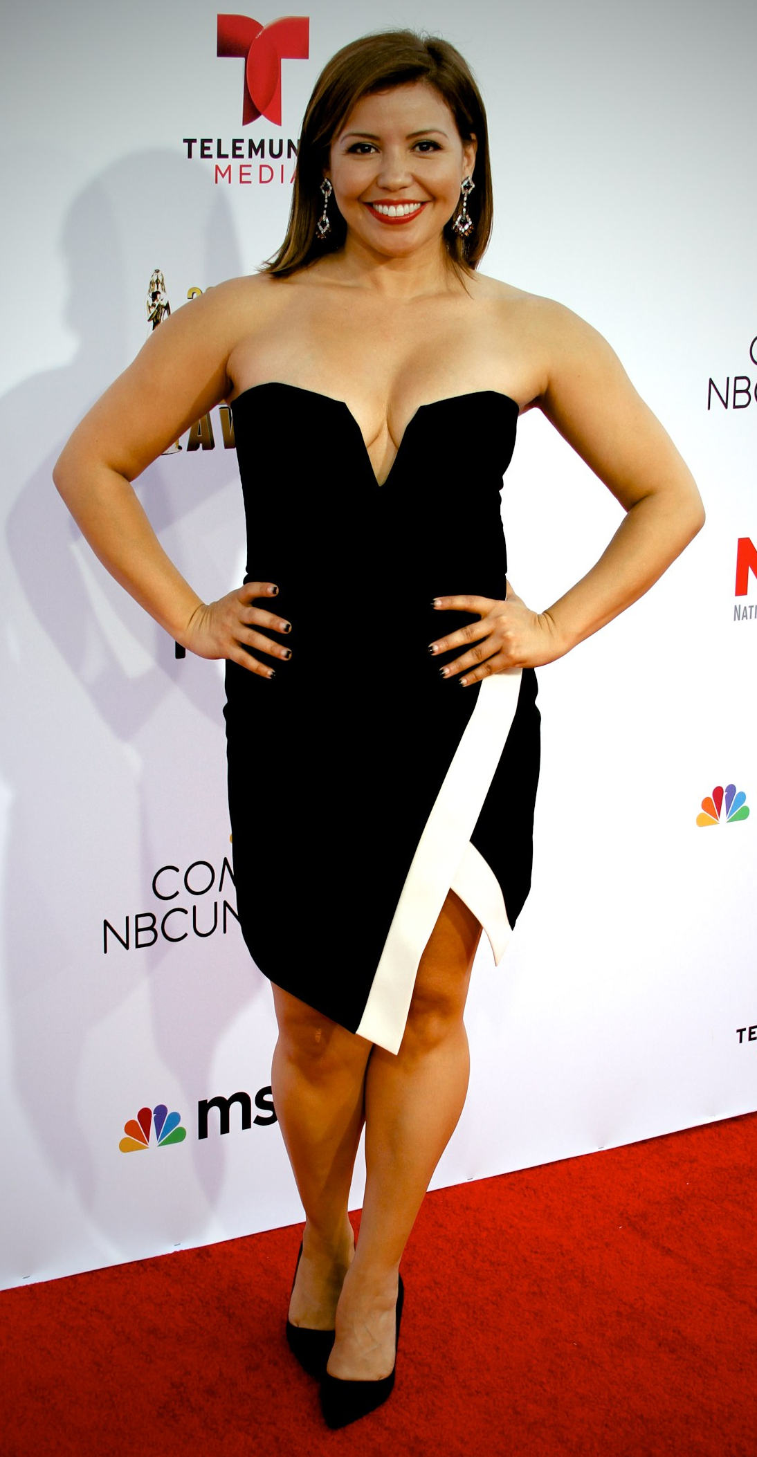 Actress Justina Machado at the 2014 Alma Awards